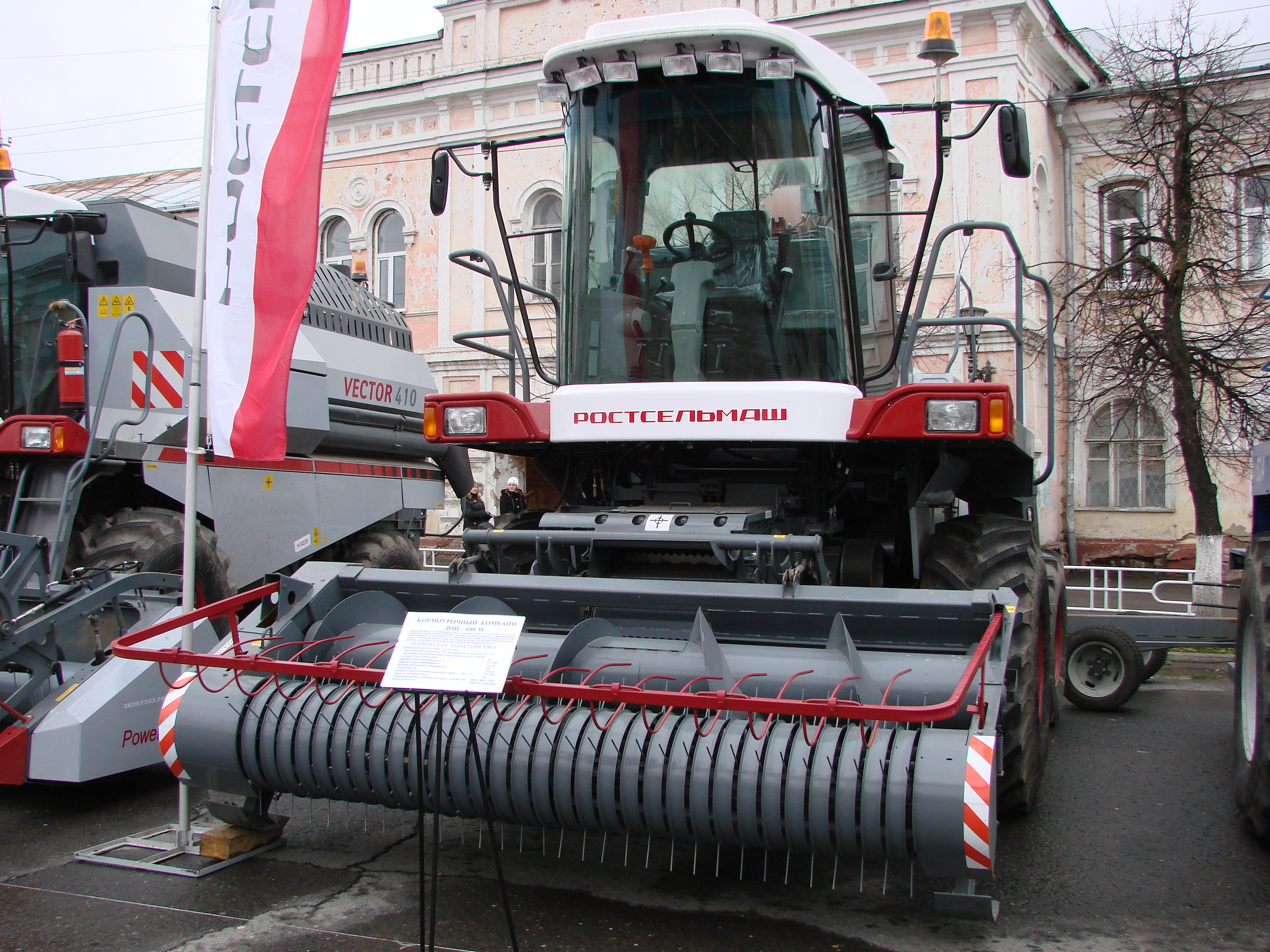 Russia, Rostselmash Don-680M forage harvester Rostselmash Vector 410 (combine harvester on the left)